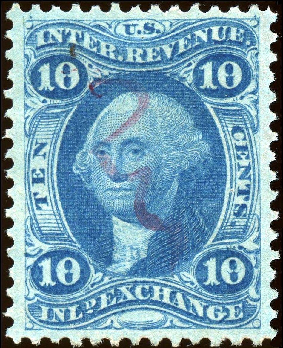 Image of Washington revenue stamp, 10-cents, issue of 1862 (Scotts# R36d)